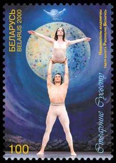 Stamp of Belarus "Ballet world Creation", 2000